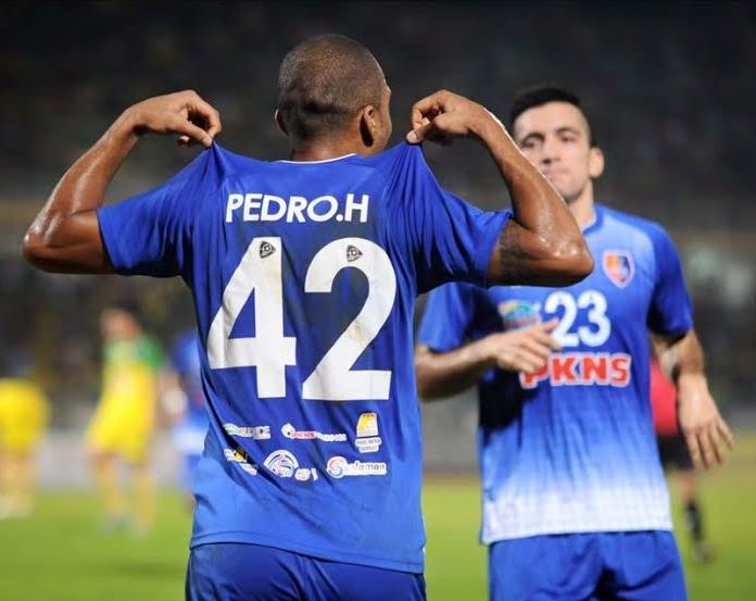 Pedro Henrique celebrating after scoring for PKNS FC against Kedah FC. 31 July 2015 Darul Aman Stadium Photographer email id